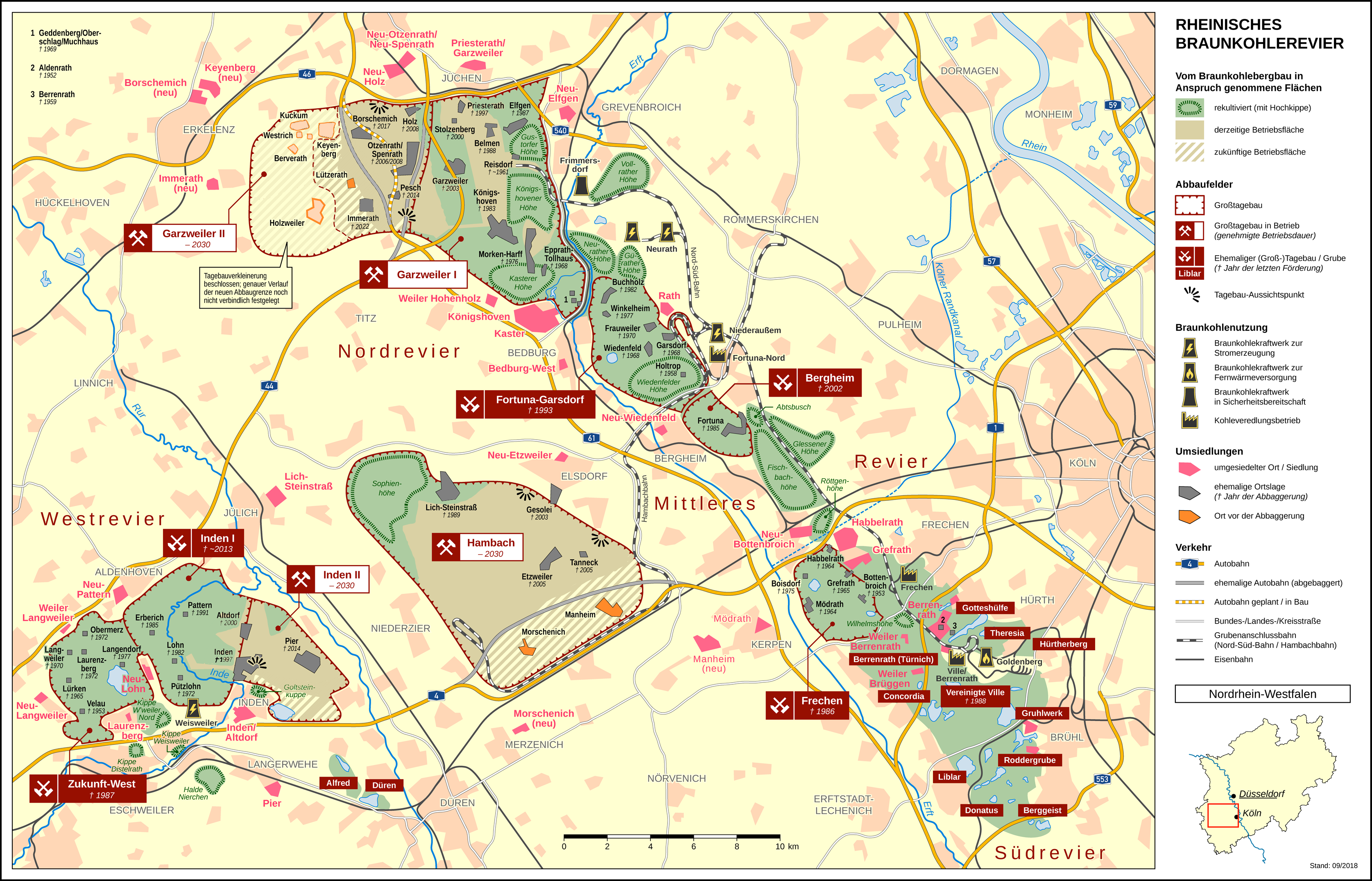 Open-pit lignite mines in the Rhenish area, North Rhine-Westphalia, Germany (DE)